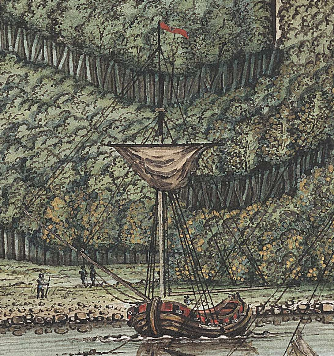 Sloop Jackal c.1792 detail from Bacstrom